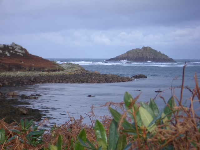 Men-a-vaur from Gimble Porth, Tresco Men-a-vaur from Gimble Porth on Tresco